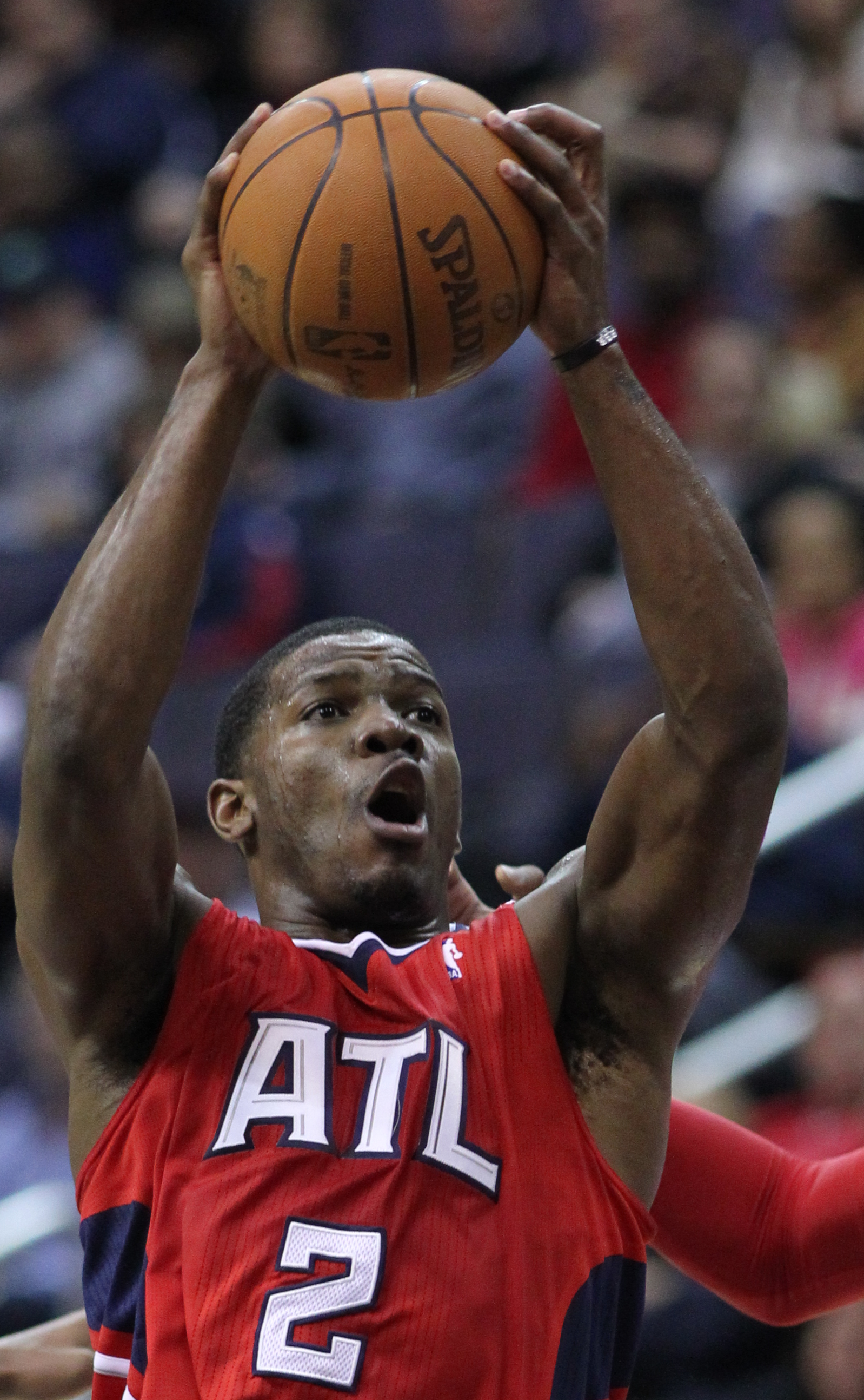 Hawks at Wizards March 24, 2012